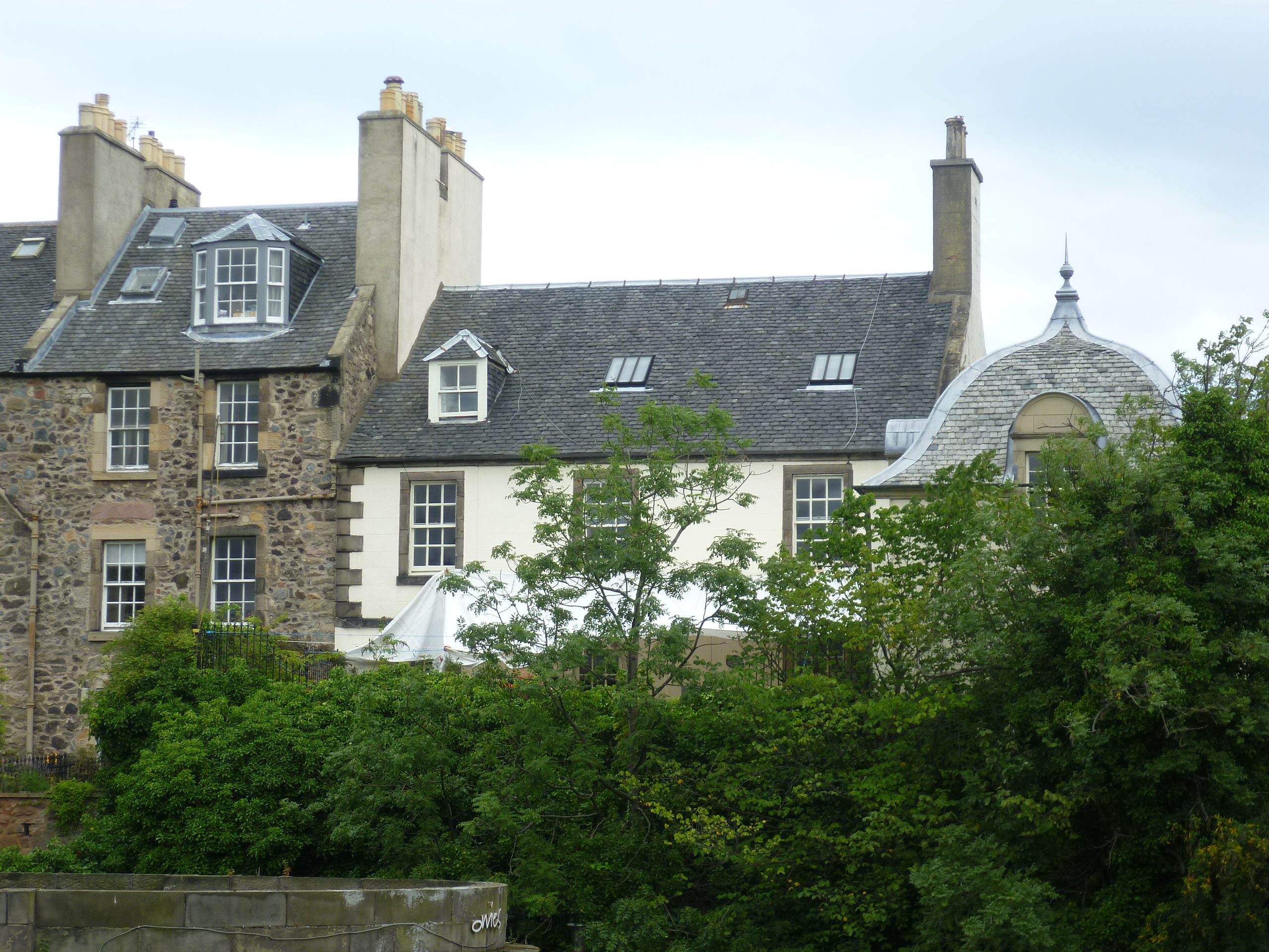 Rock House (centre) was the home in the 1840s of the scientist Robert Adamson, who formed a partnership with the artist David Octavius Hill with a view to exploiting Henry Fox Talbot's new calotype process of photography. Hill & Adamson began their collaboration by producing portraits of ministers of the new Free Church of Scotland, established after the Disruption of 1843. Over the next three years Adamson's knowledge of chemistry, combined with Hill's aesthetic sense, produced thousands of calotypes covering a range of subjects, from prominent Edinburgh citizens, soldiers and landmarks to family members and friends, and the distinctive fishermen and fishwives of the village of Newhaven to the north of Edinburgh. Many of their photographs were taken in the studio they set up in the garden of Rock House.